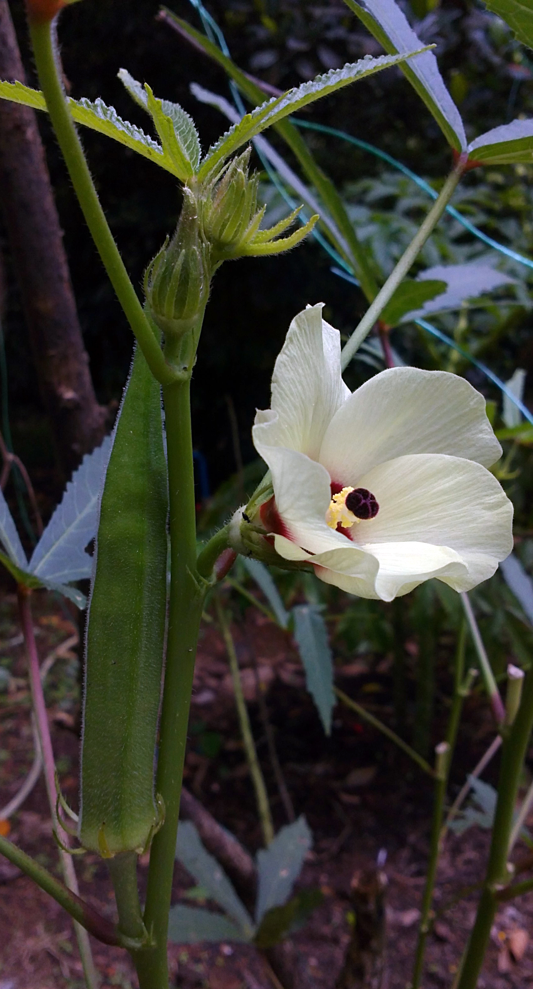 Okra flower and seed pod‌_Abelmoschus esculentus